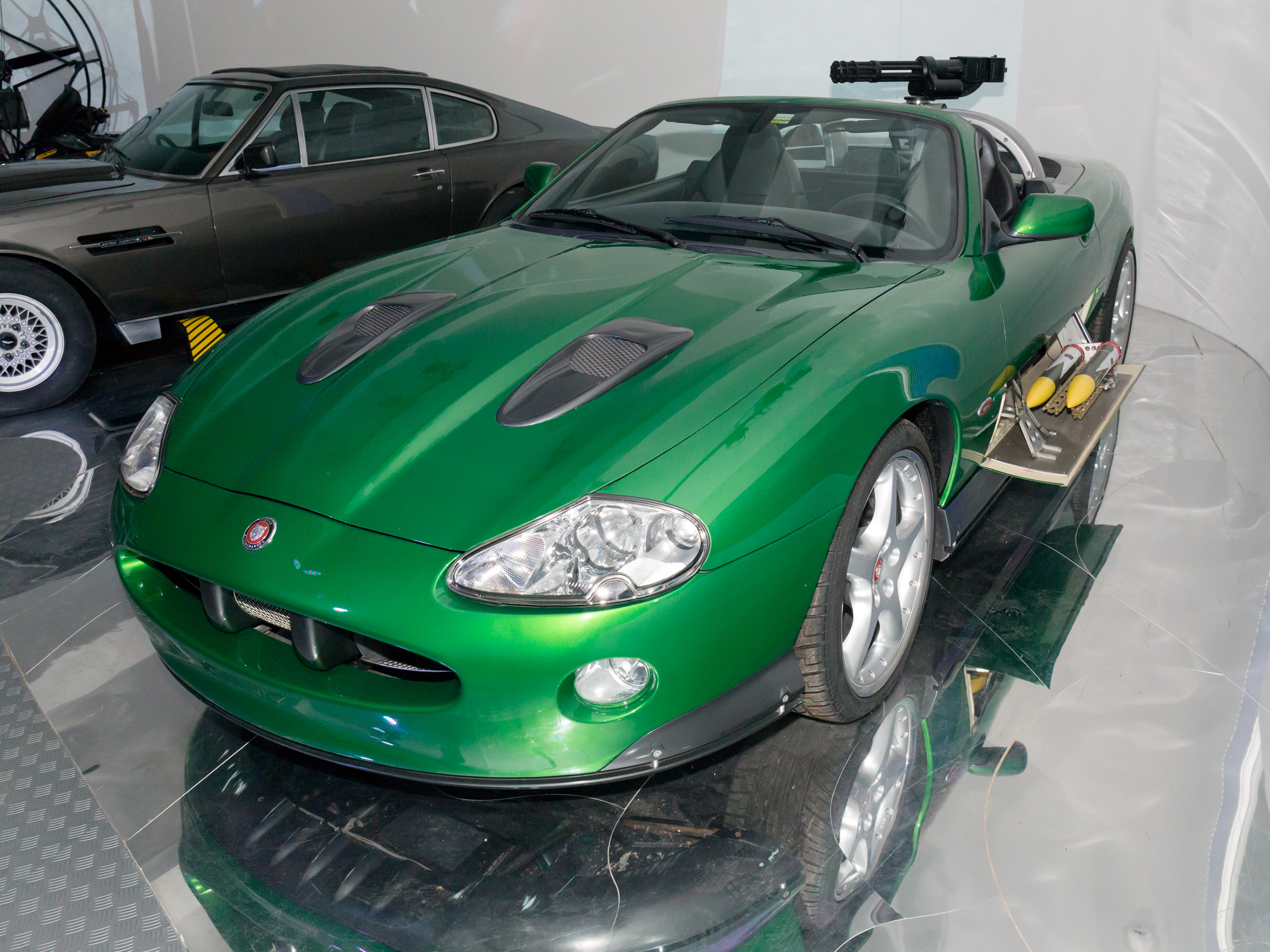 Jaguar XKR, from "Die Another Day" (2002)